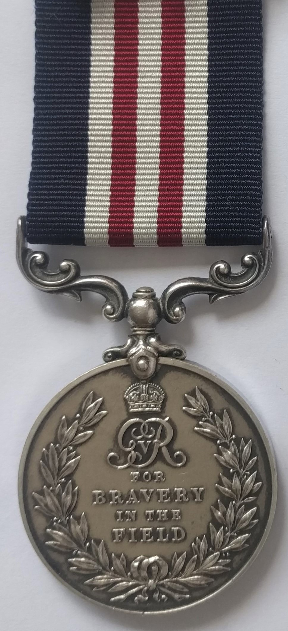 British and Commonwealth bravery medal, version awarded in World War I